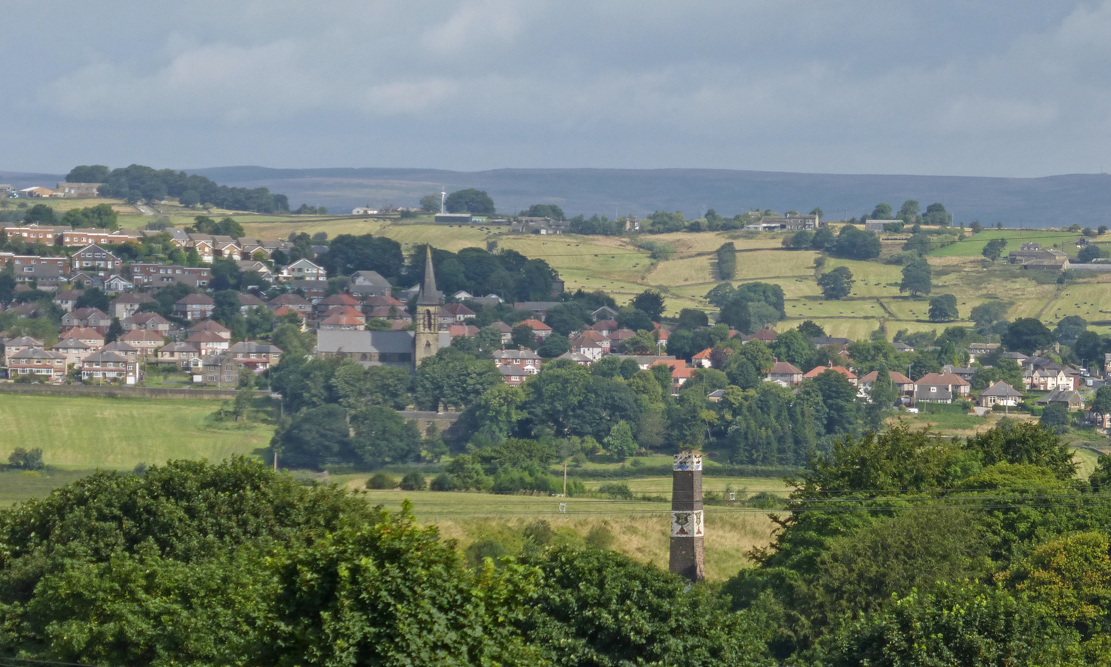 Thornton